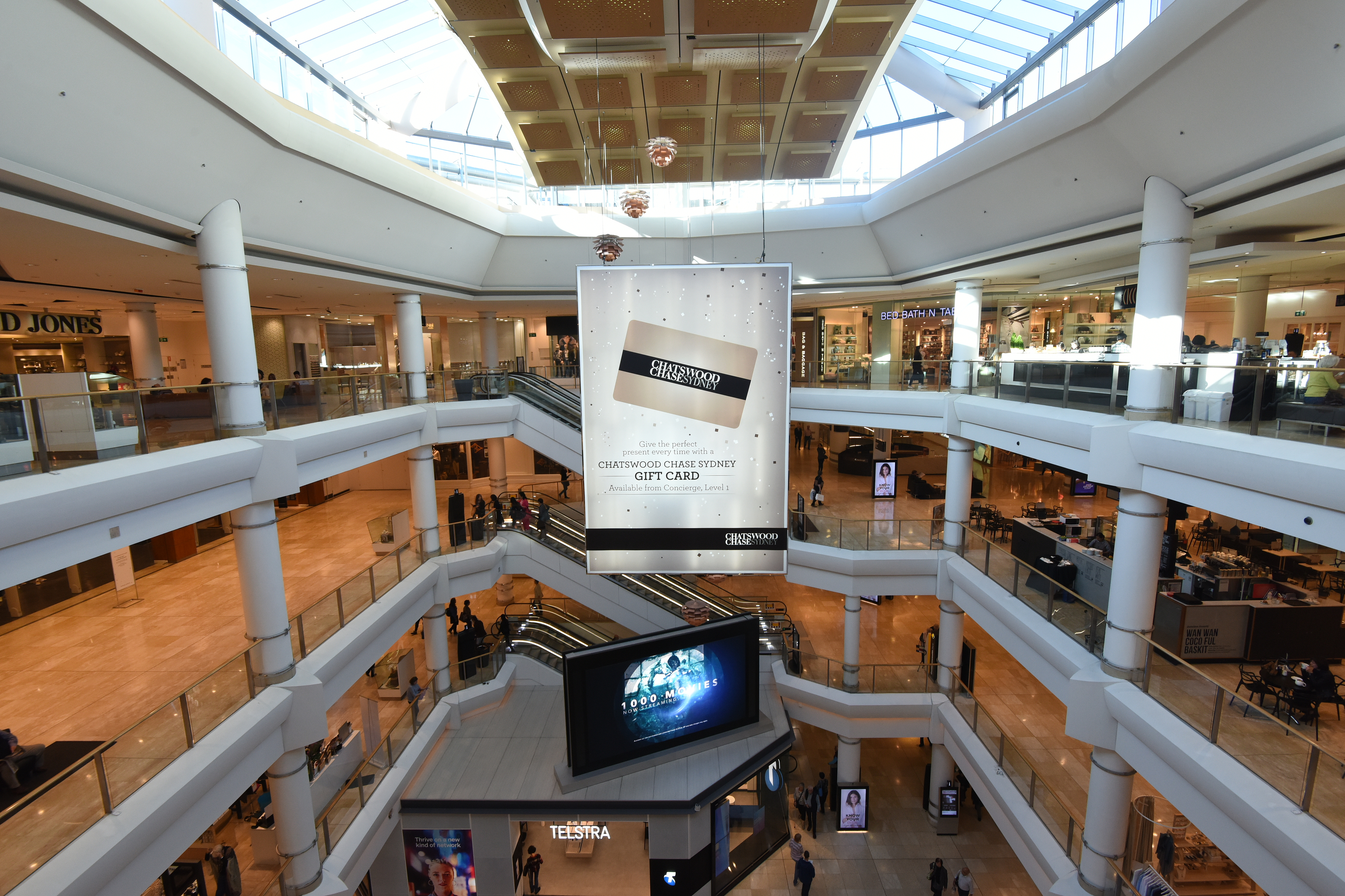 Chatswood Chase shopping centre, Chatswood, Sydney